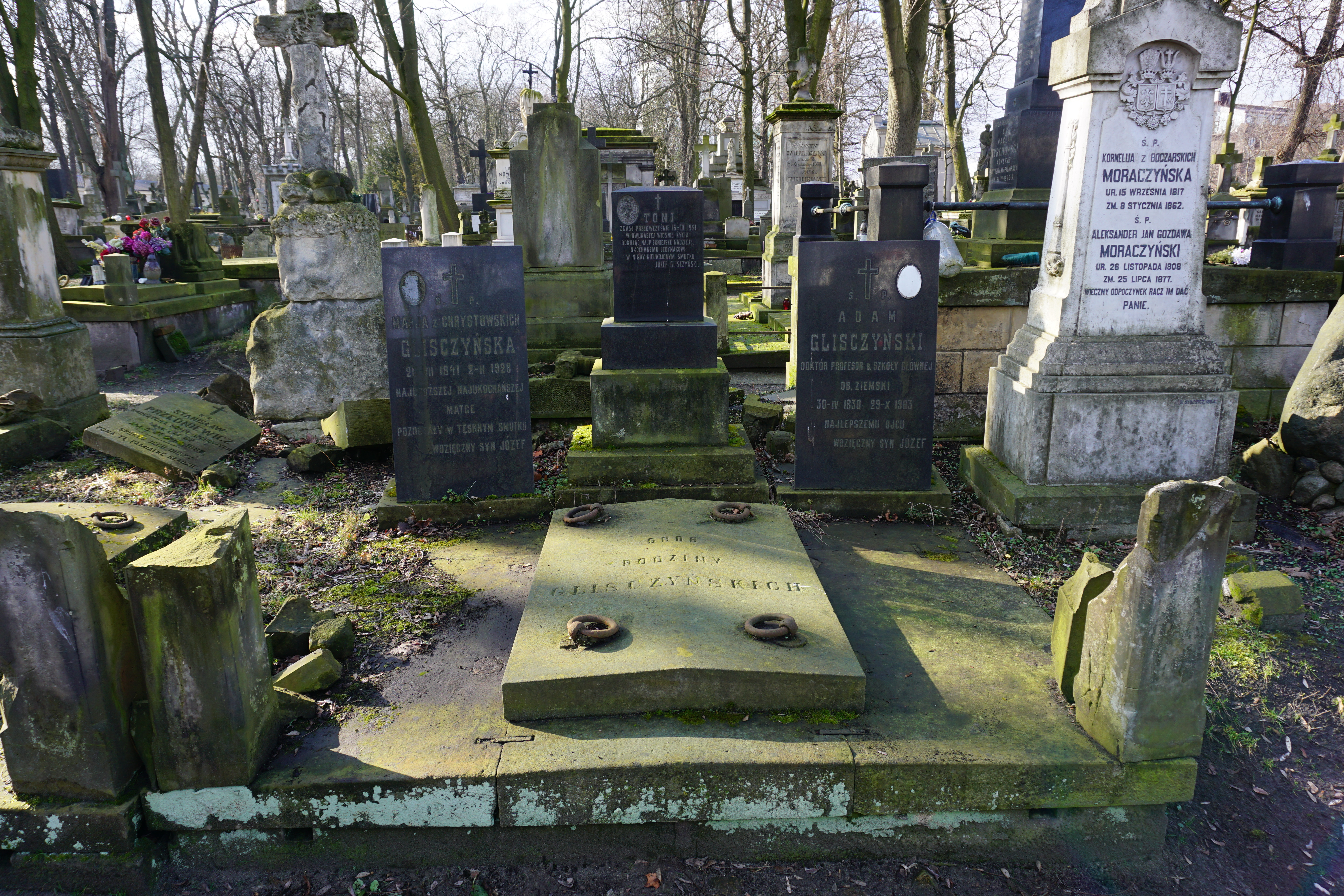 The grave of Adam Gliszczyński at the Powązki Cemetery (section 179, row 3, grave 13, 14)